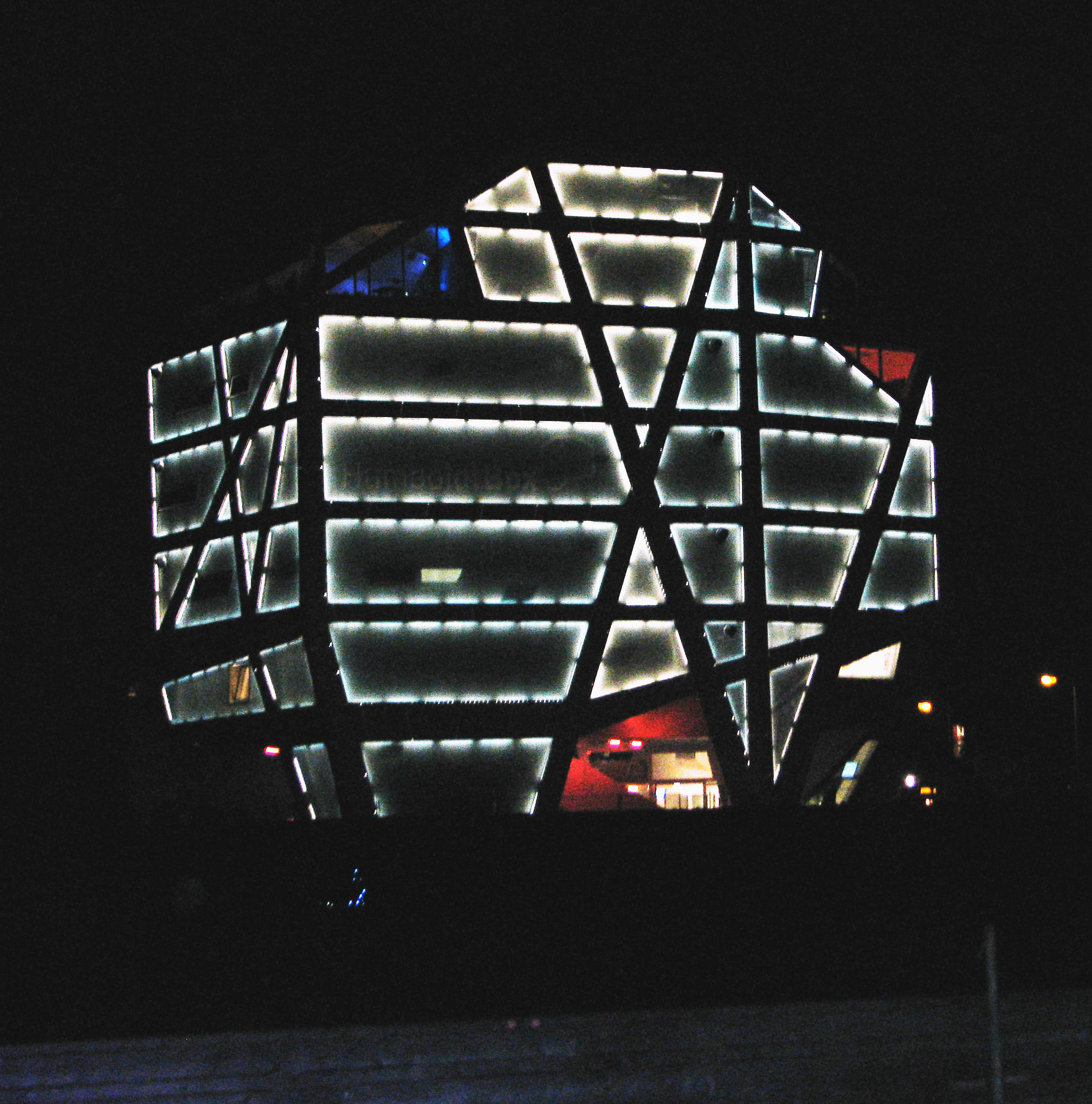 Humboldt-Box by night